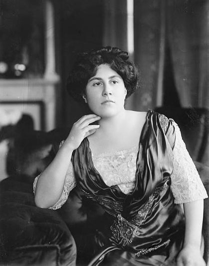 Emmy Destinn (1878 - 1930), Czech operatic sopran